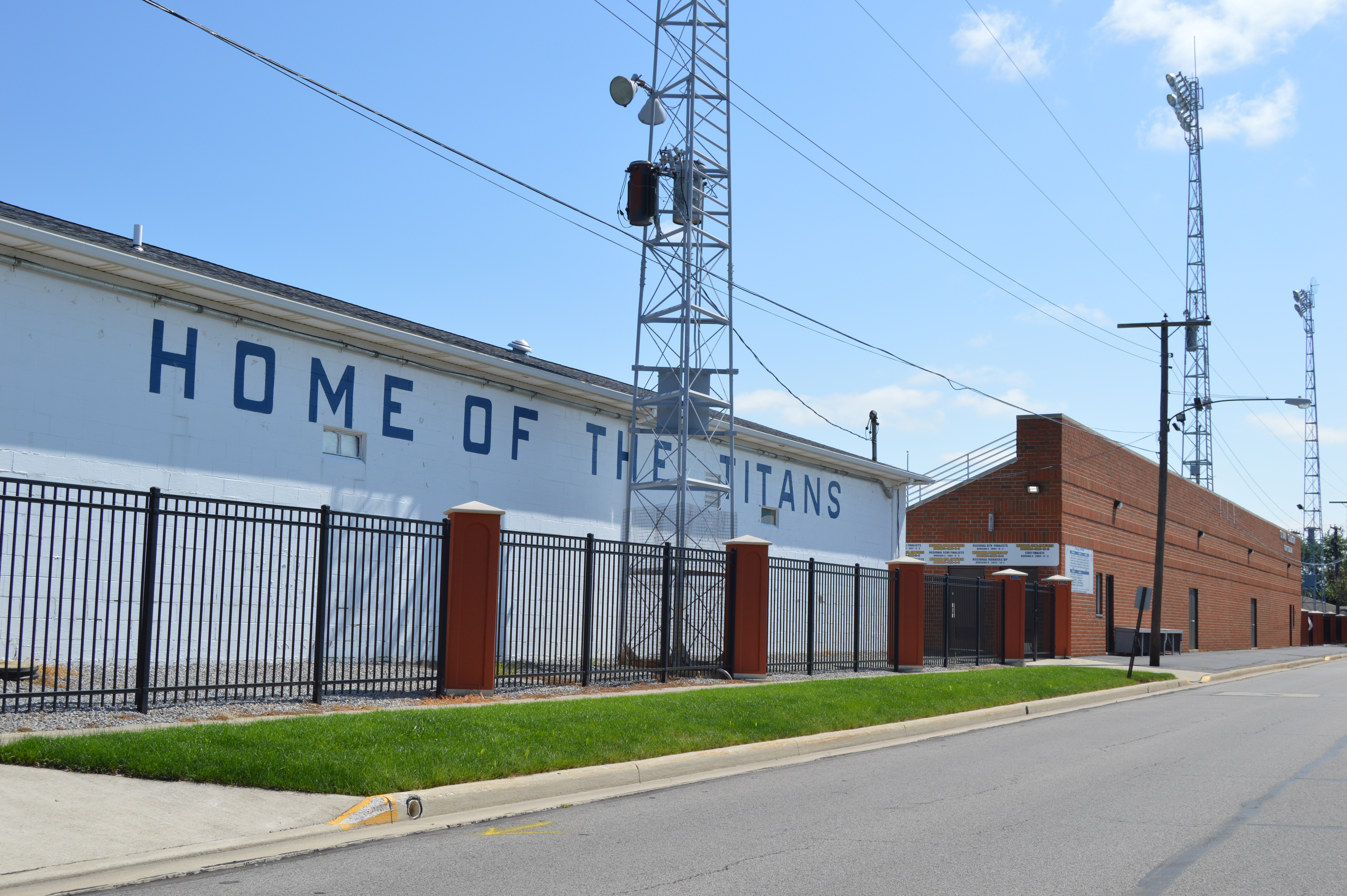 Buildings in the athletic complex for Ottawa-Glandorf High School, located on the northern side of Glendale Avenue east of Defiance Street in Ottawa, Ohio, United States.